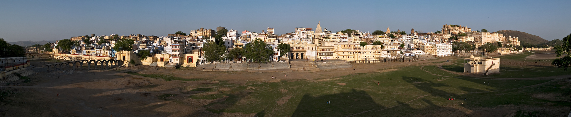 Udaipur (Rajasthan/India) panorama with dried Lake Pichola own photo, may 15, 2005 photo: nomo/michael hoefner